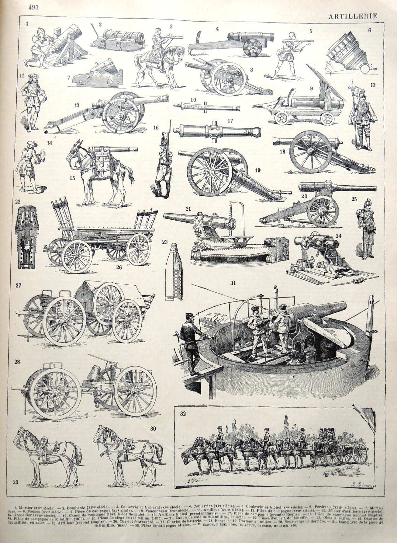 History and 19th Century artillery